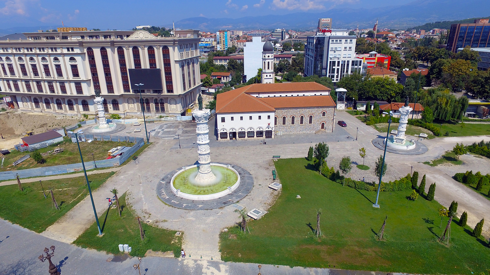 Church St. Mother of God in Skopje